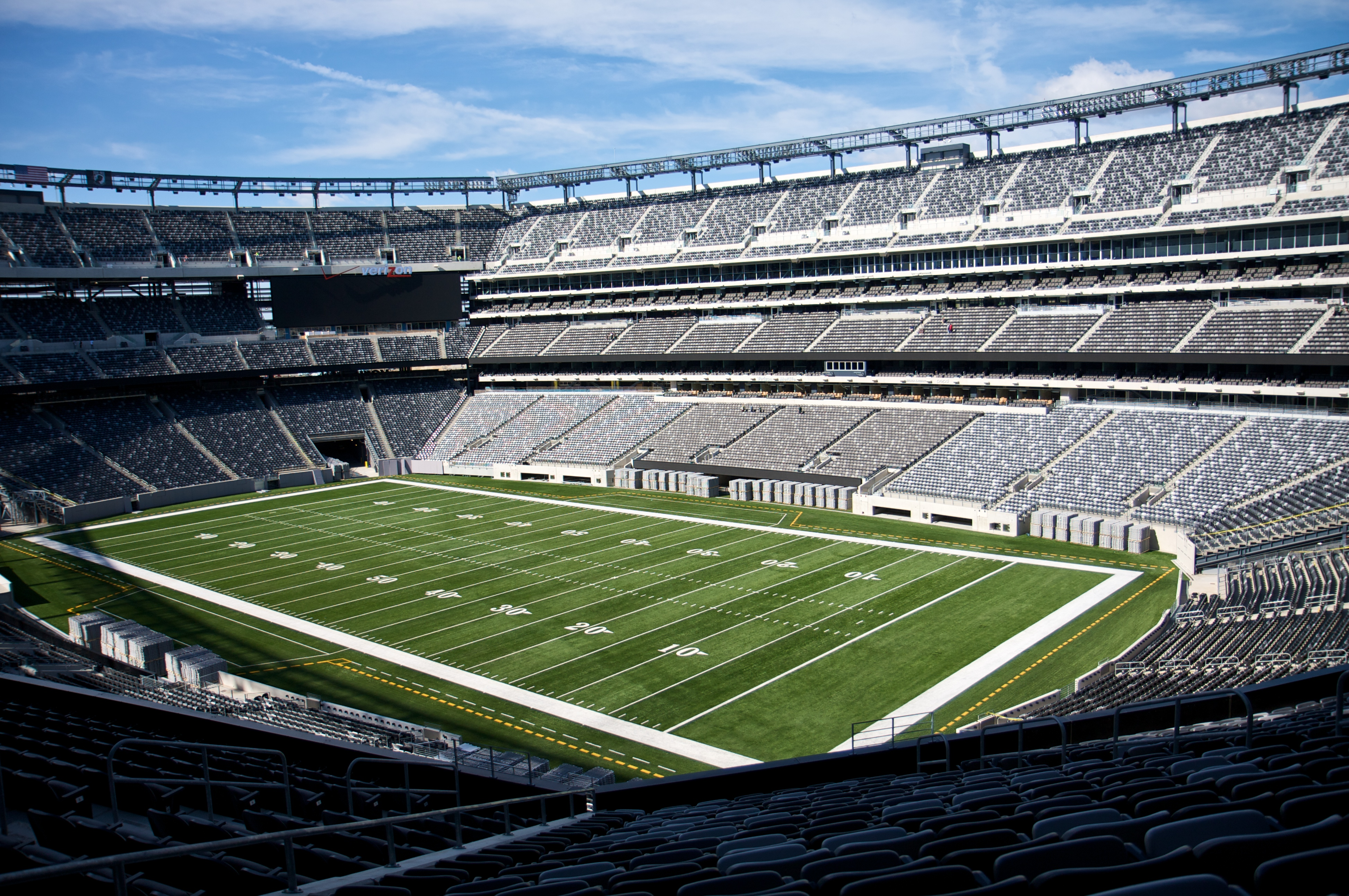 View of the field at the New Meadowlands Stadium, 2010.